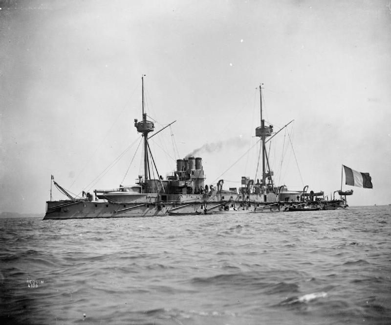 Symonds and Co Collection French Battleship REQUIN, 1892.